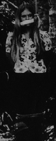 Nancy Trotter (17). Surviving victim of Gerard Schaefer. Martin County police photographer image. July 22, 1972.